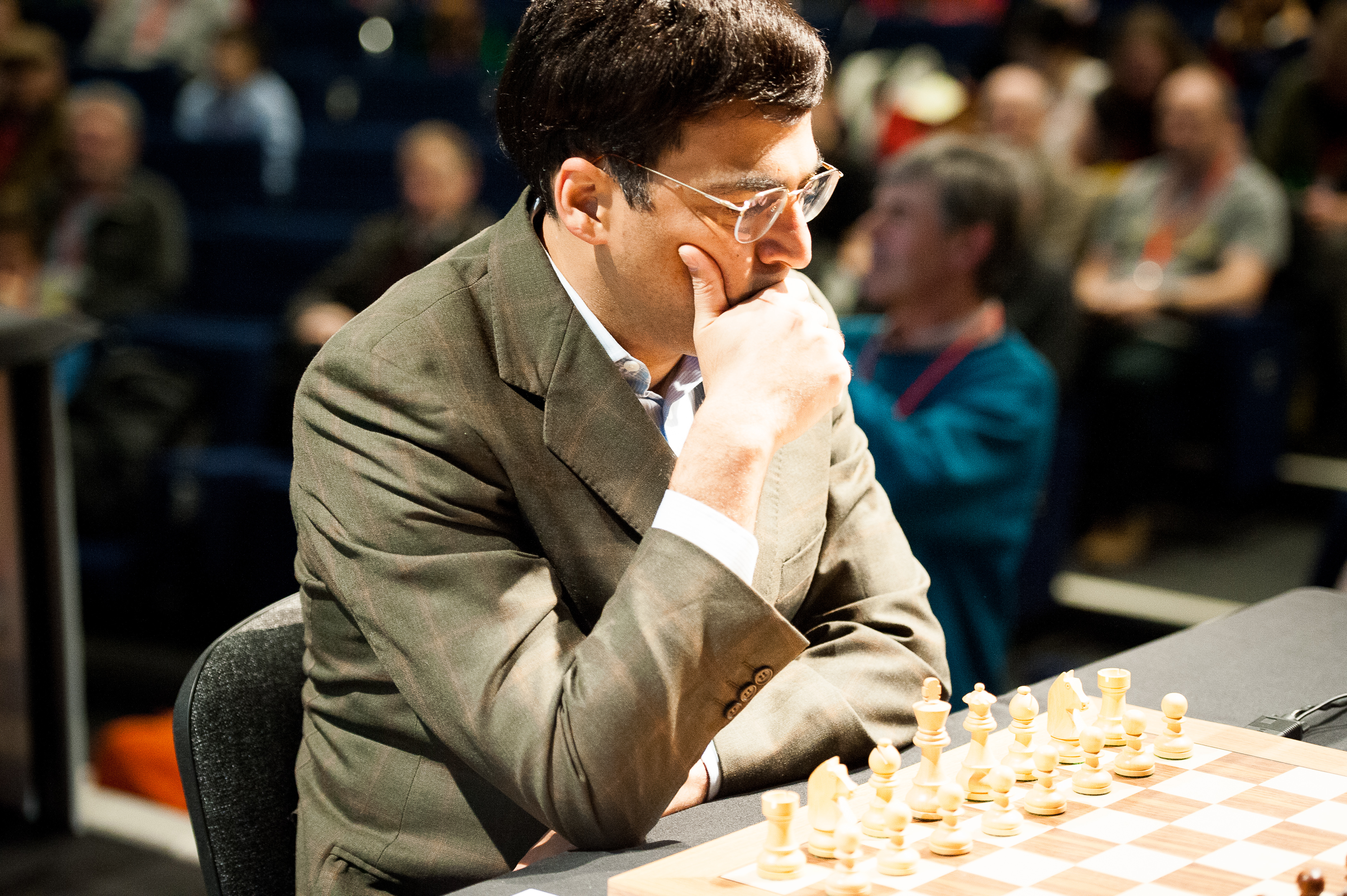 GM Viswanathan Anand, World Nr. 8